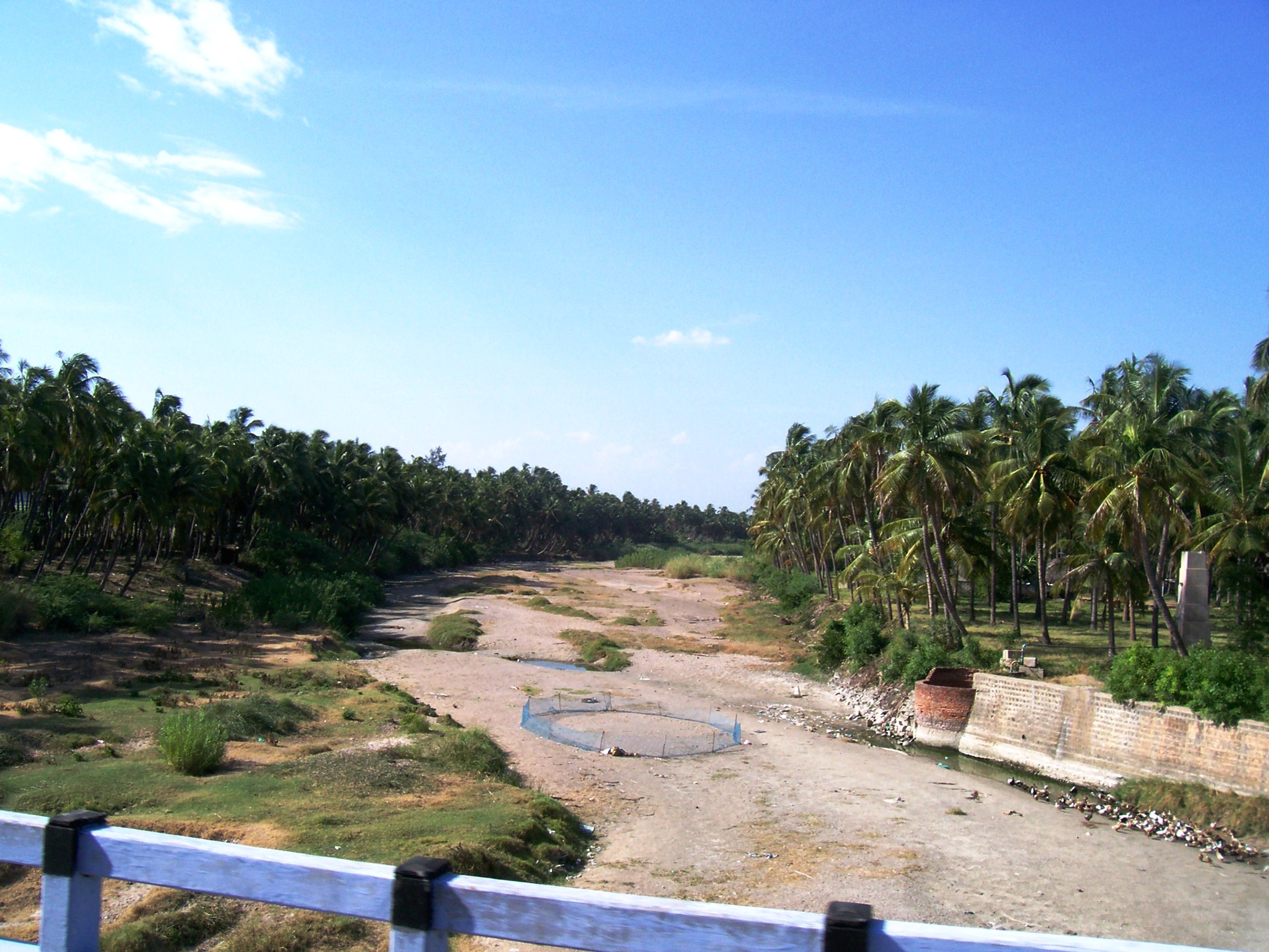 Noyyal River at Noyyal Cross.